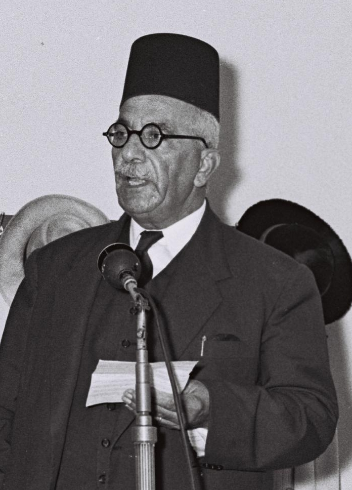 AMIN JARJURA, MOSLEM MAYOR OF NEZARETH.